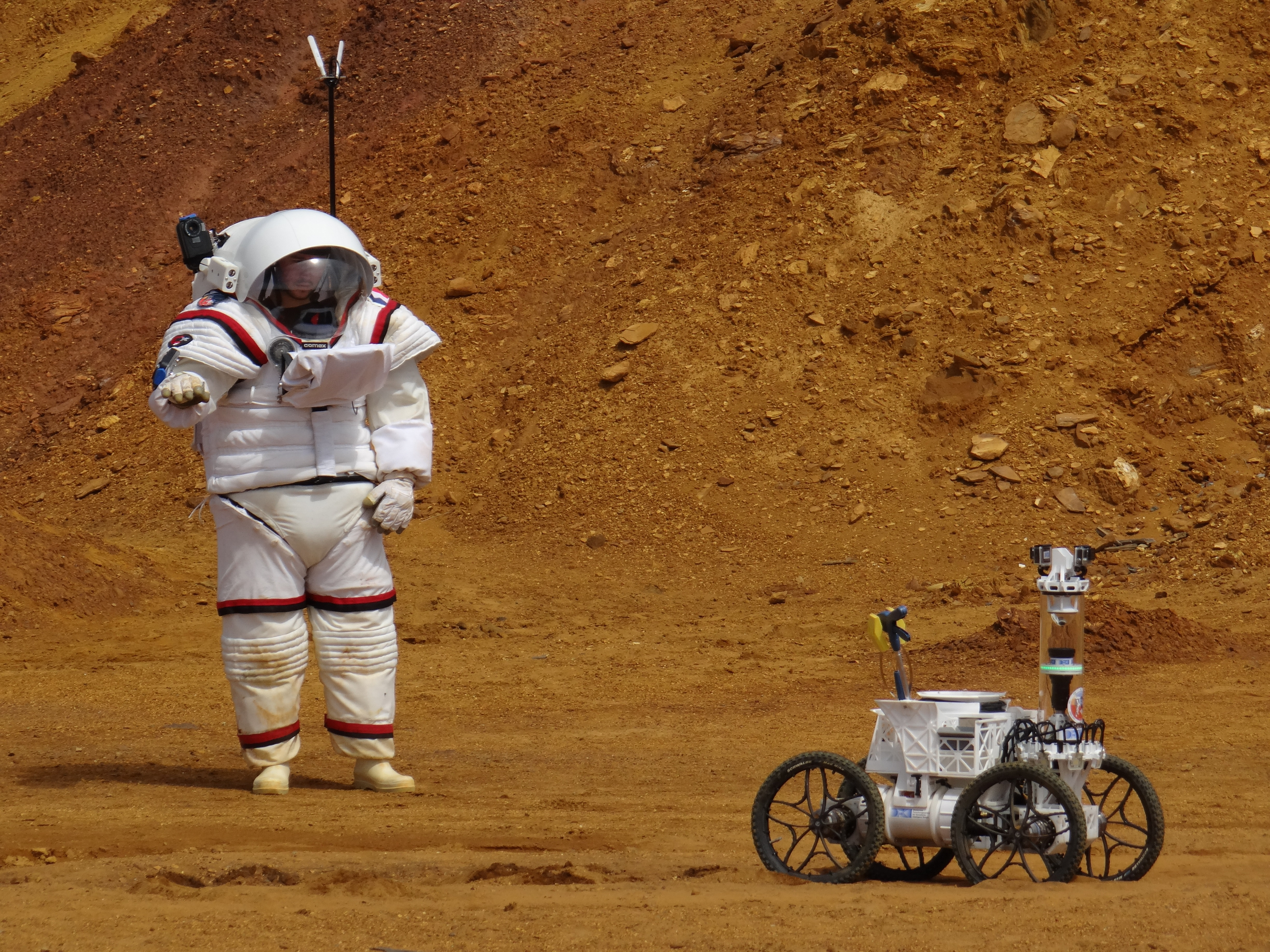 Mars mission simulation in the frame of the European project "MOONWALK". The objective of the simulation was to test robot-astronaut cooperation in an analogue environment. The image shows the COMEX space suit simulator "GANDOLFI" and the DFKI scout robot "YEMO". Date of the image: 27-04-2016 at Rio Tinto in Spain.